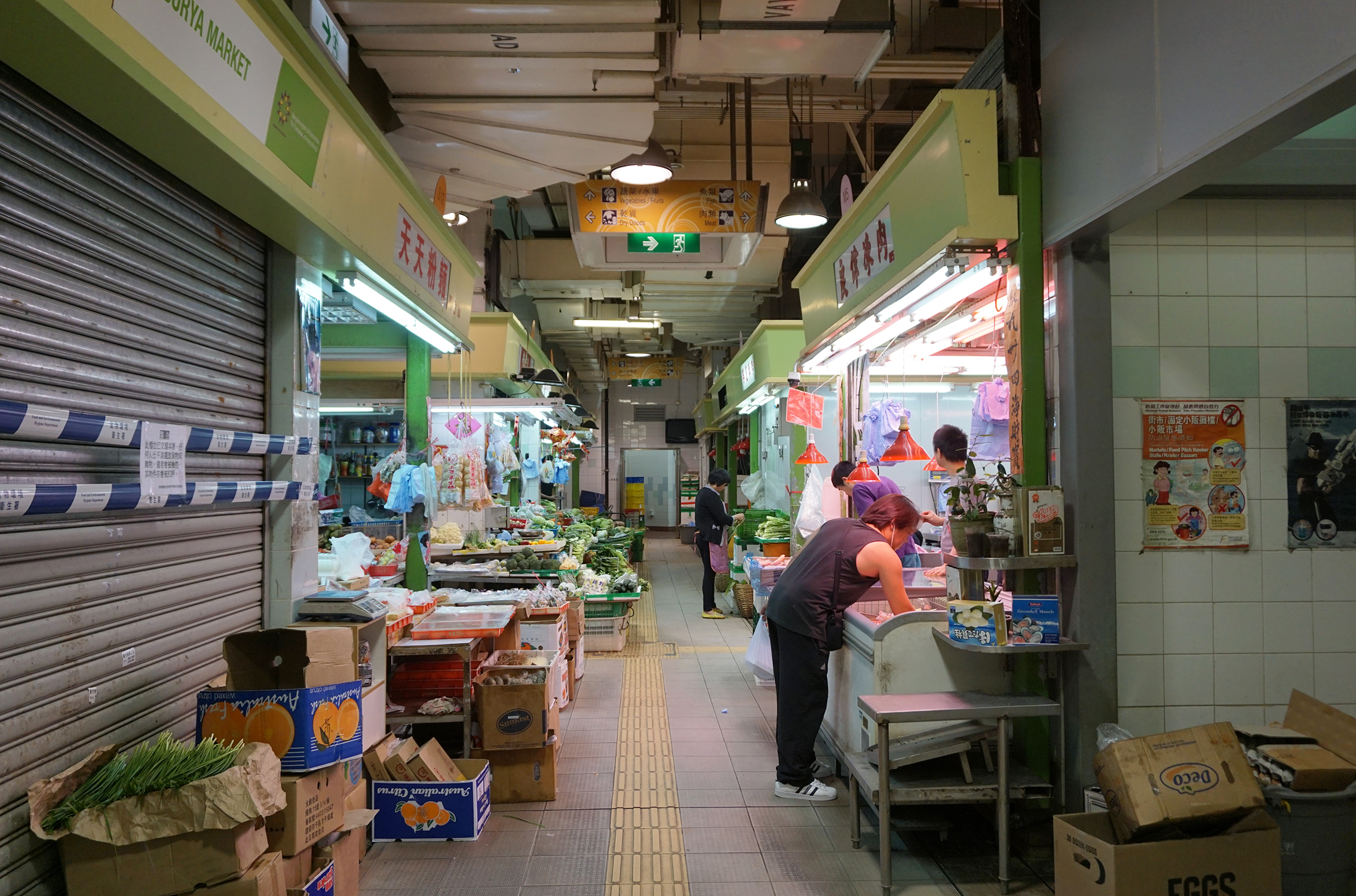 Aldrich Bay Market in Shau Kei Wan, Hong Kong.